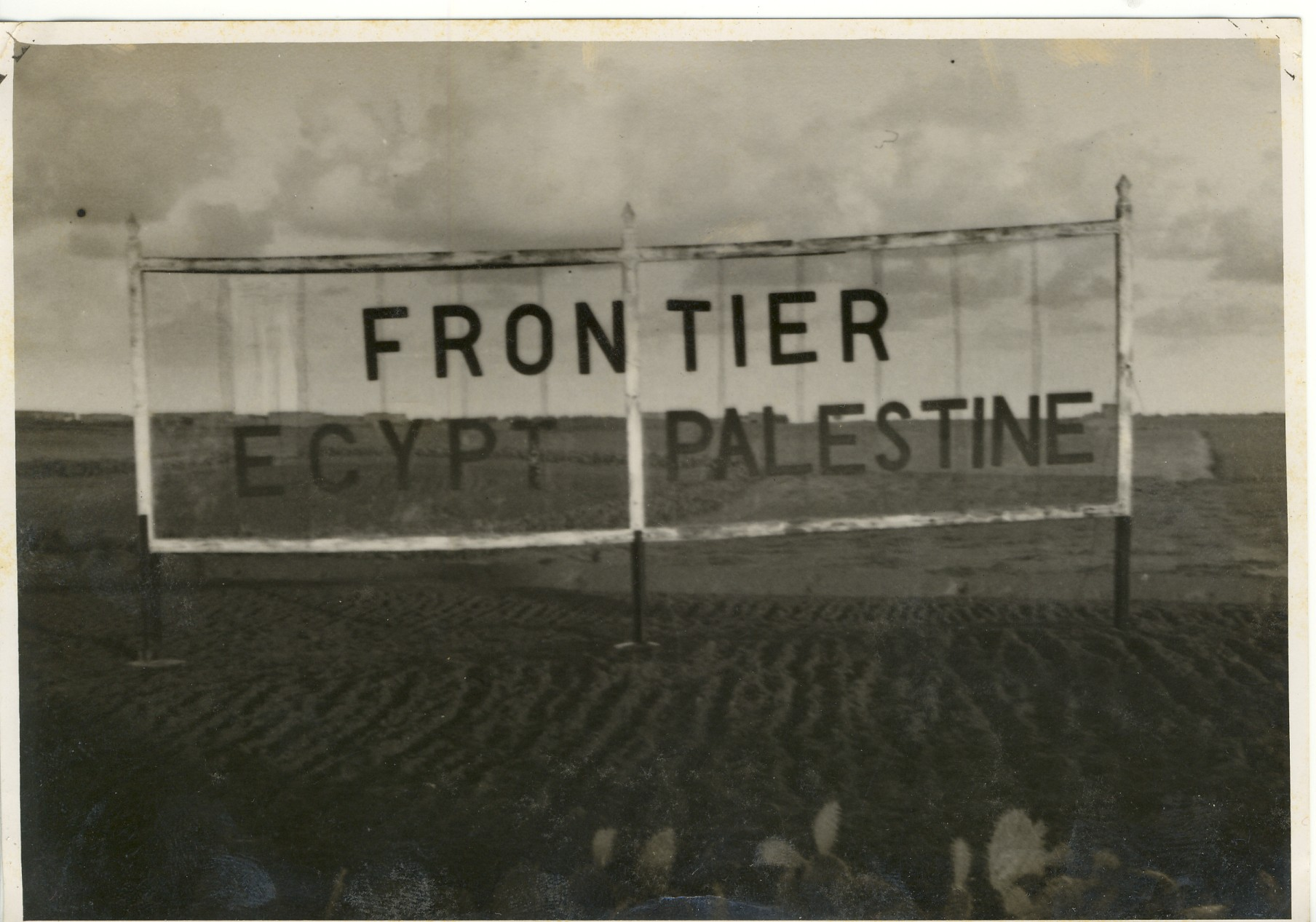 Mark the border between Israel and Egypt during the British Mandate